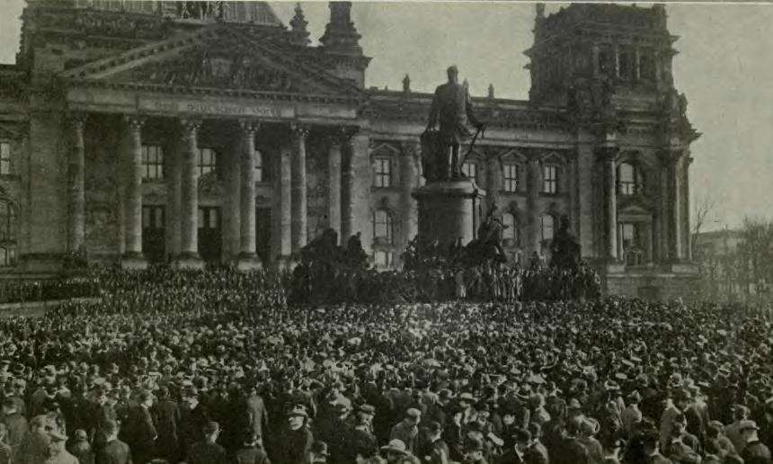 Proclamation of the republic in Berlin, November 10th 1918.